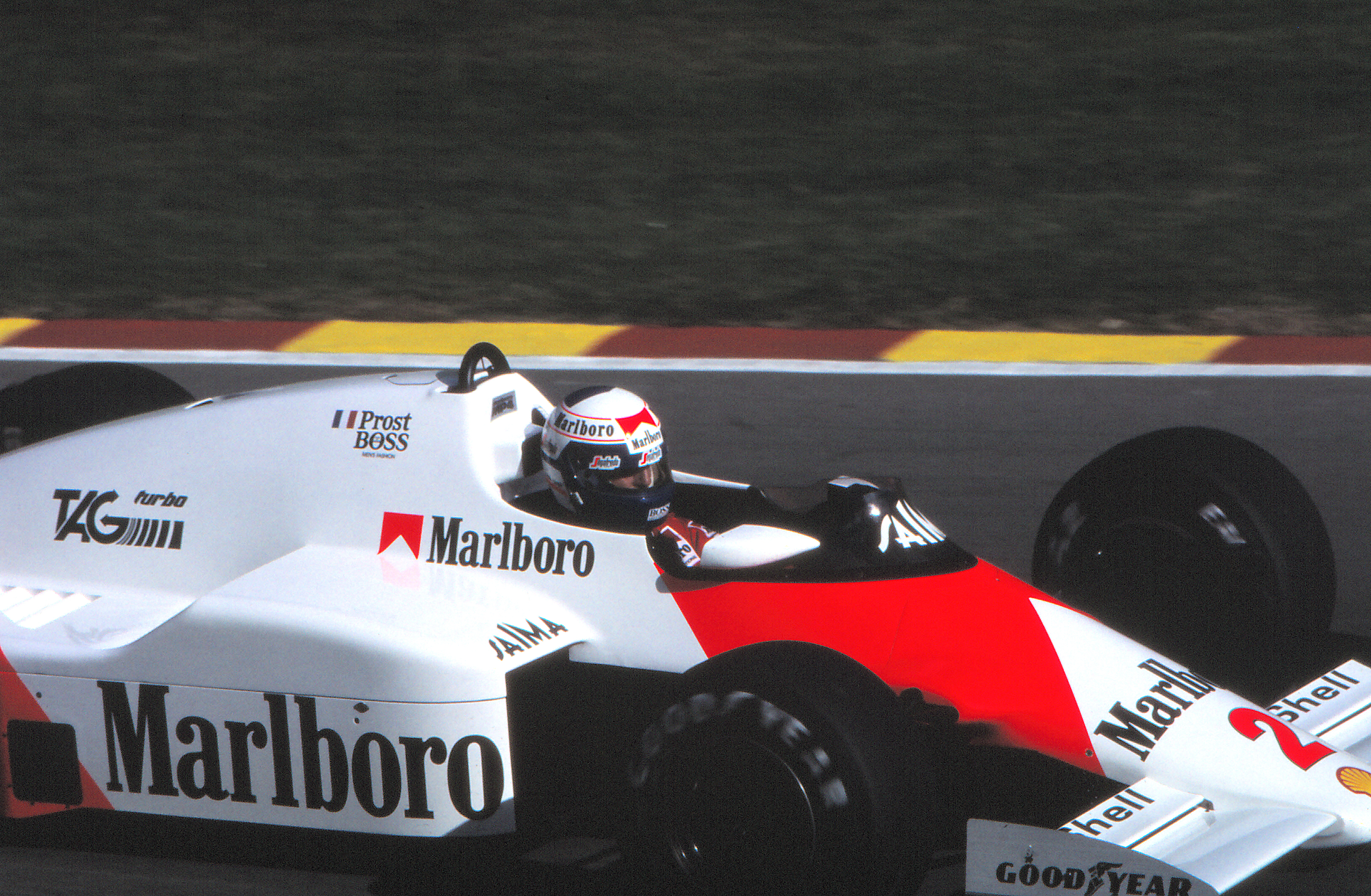 Alain Prost during practice for the 1985 European Grand Prix